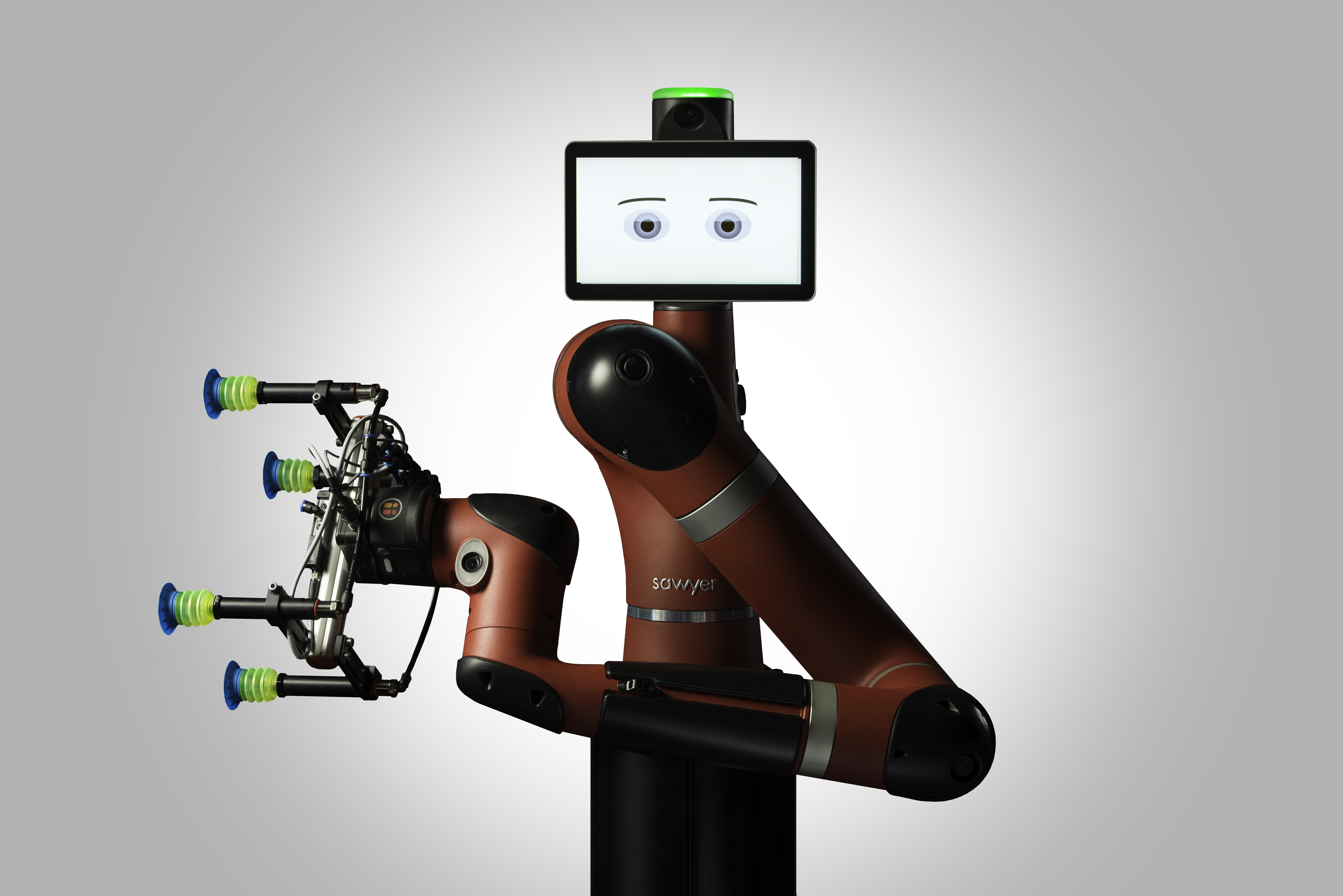 Sawyer Collaborative Robot with a ClickSmart gripper from Rethink Robotics